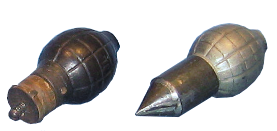 Citron-Fougass type french grenade - WWI (in coll. Mémorial de Verdun).